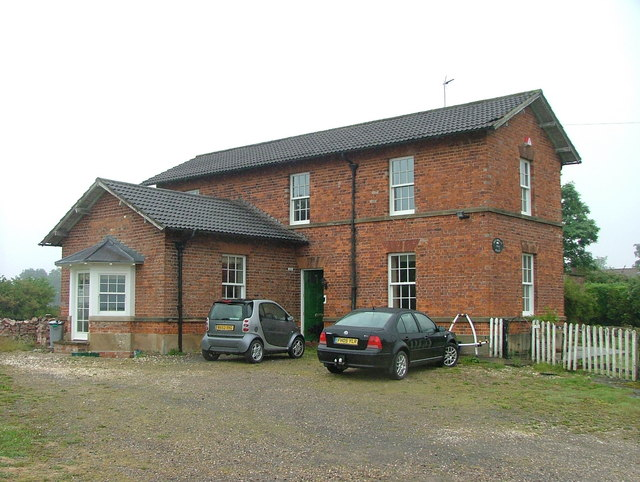 Former Railway Station in Shiptonthorpe, East Riding of Yorkshire, England.The former station, Londesborough Road, just next to the village of Shiptonthorpe. The station was served by the former York - Beverley Railway.